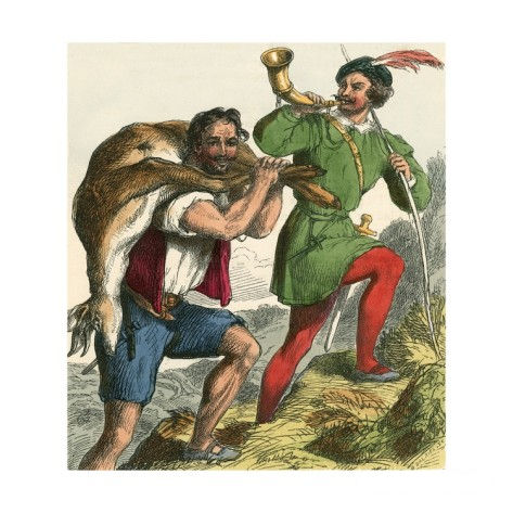 F. Tayler: Robin Hood and little John taking home the fat buck.